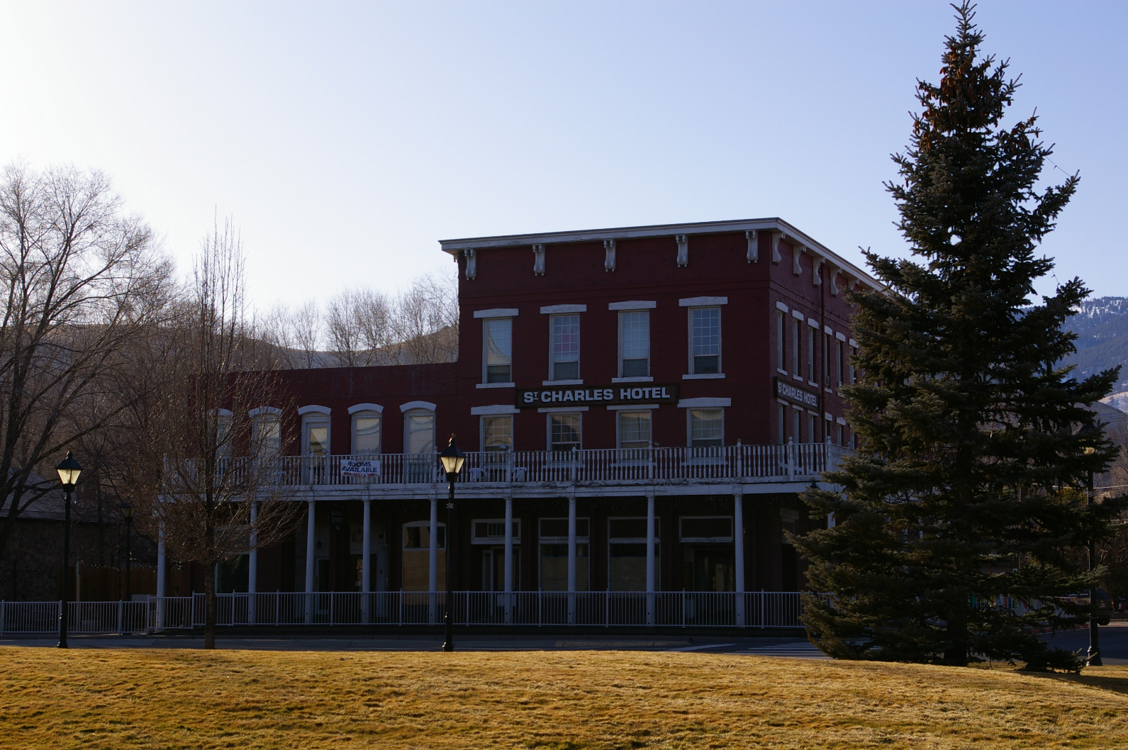 St. Charles Hotel, one of the oldest structures in Carson City